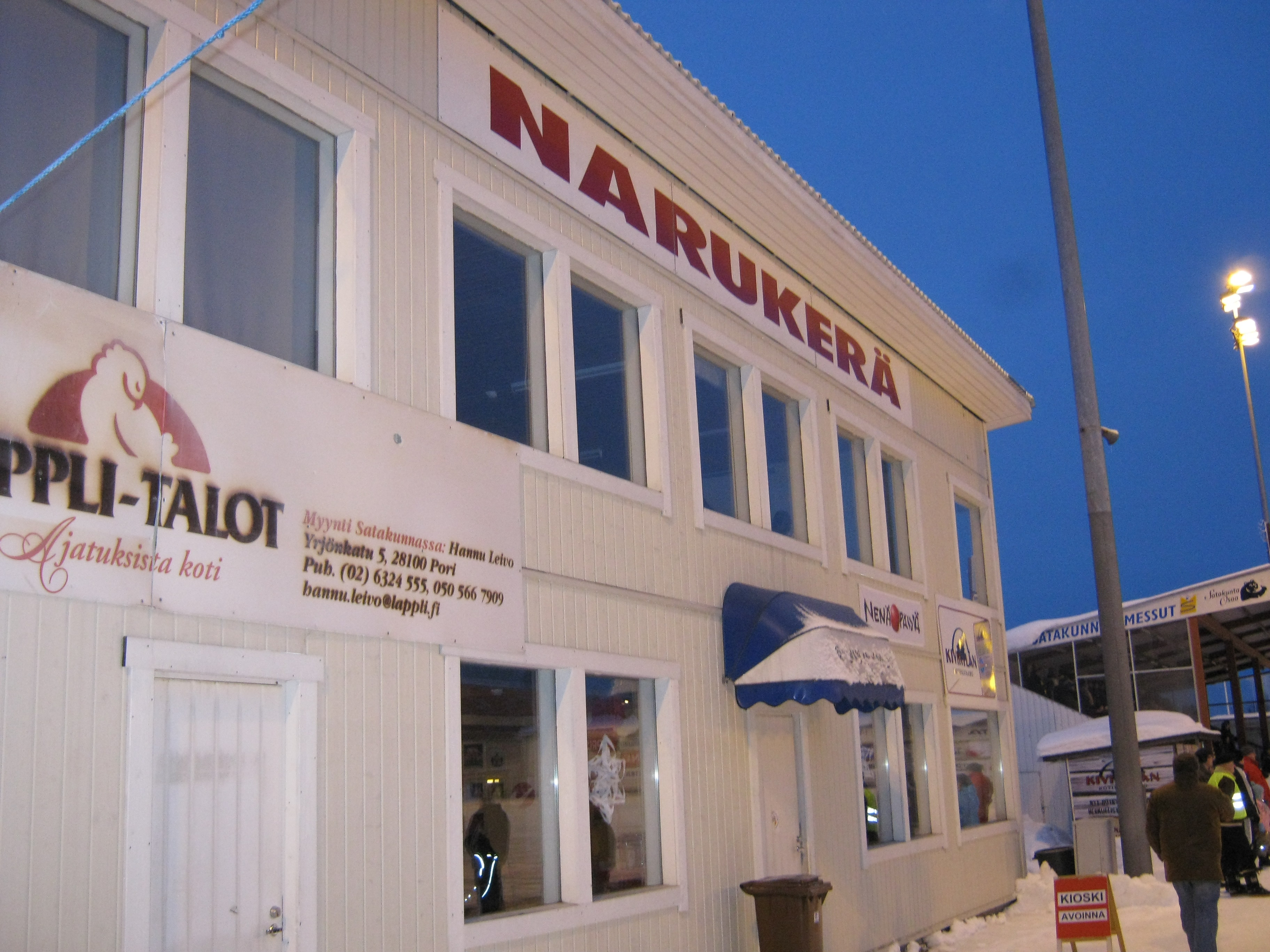 The clubhouse of bandyteam Narukerä, Pori, Finland.